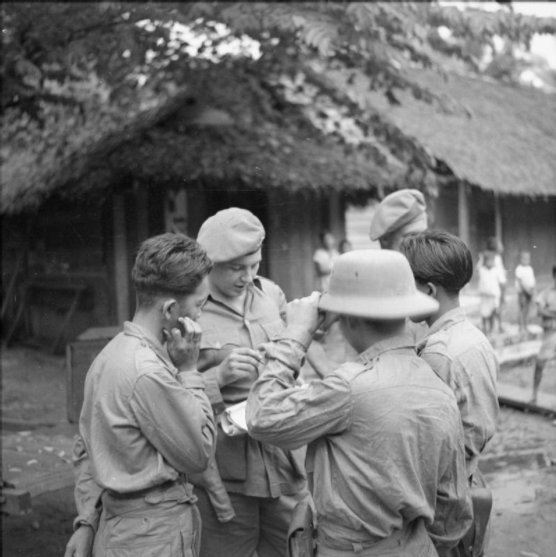 The British Reoccupation of Malaya An informer, who thinks he has recognised a suspect, confers with the 53rd Brigade Intelligence Officer, Captain P Hirbage during an operation to round up bandits who had abducted a number of civilians from the town of Kuala Kangsar. The subsequent murder of a number of the abductees led to a serious crackdown on the bandits by the British authorities.